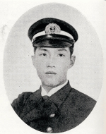 Japanese admiral Ogasawara Naganari as midshipman on the cruiser Takachiho in First Sino-Japanese War